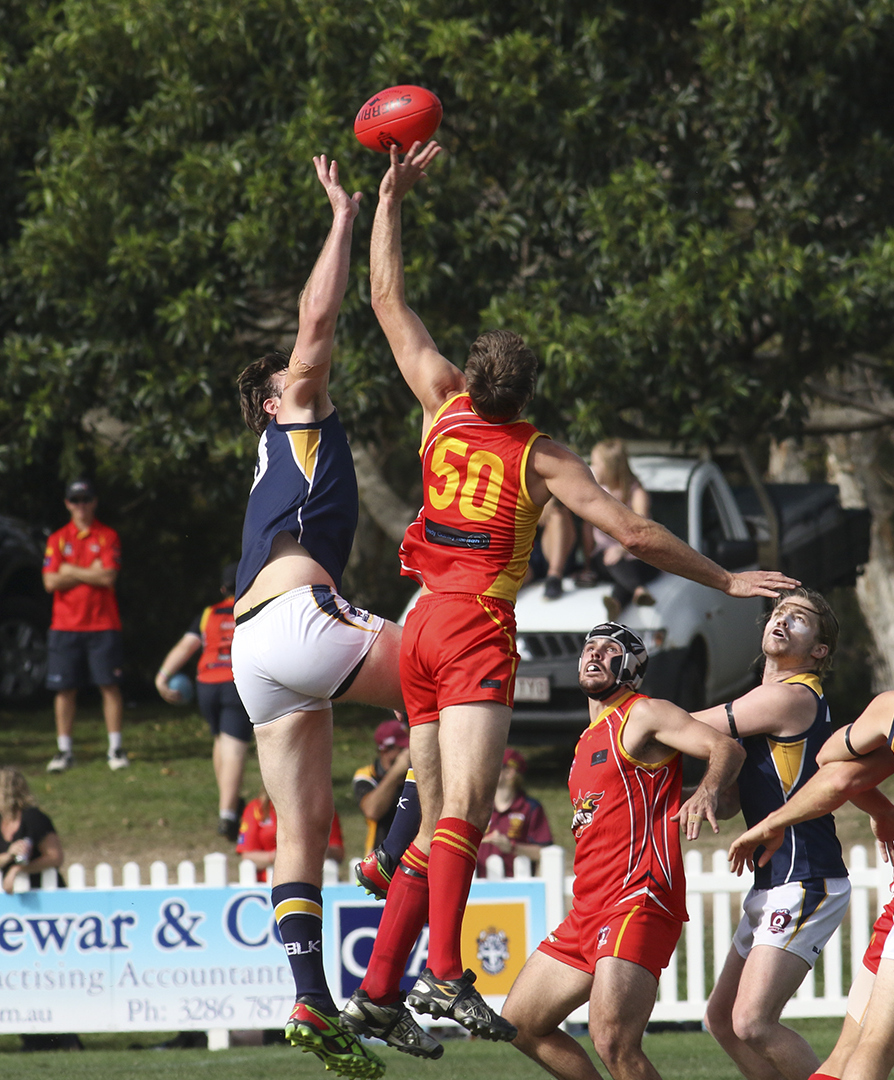 Two players in a ruck contest.